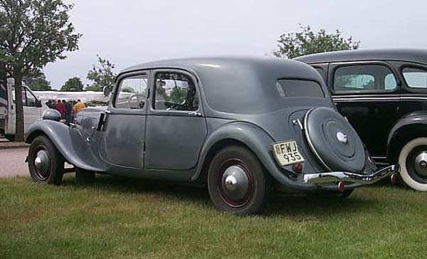 1936 citroen traction avant taken by thomas forsman